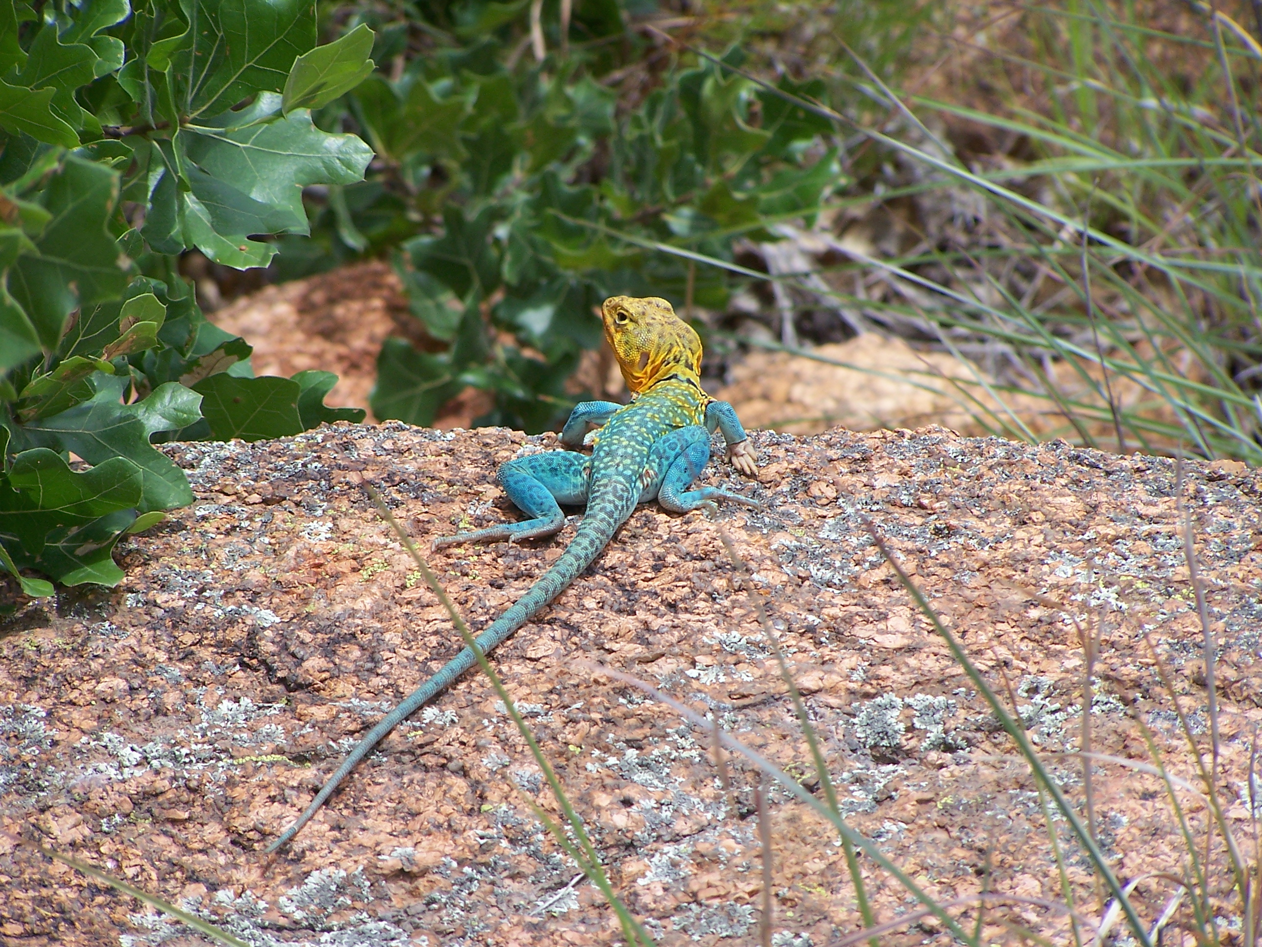 A male Common Collared Lizard at the Wichita Mountains National Wildlife Refuge near Lawton, Oklahoma